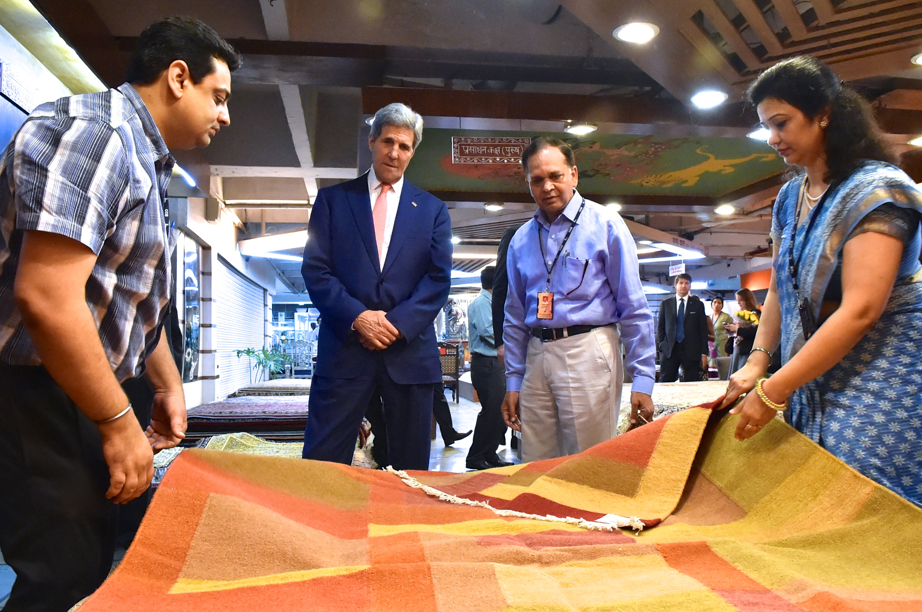 U.S. Secretary of State John Kerry examines a dhurrie as he visits the Cottage Emporium in New Delhi, India - a six-story bazaar of native crafts - as he travels to meetings as part of a Strategic Dialogue between the two countries on July 31, 2014. [State Department photo/ Public Domain]